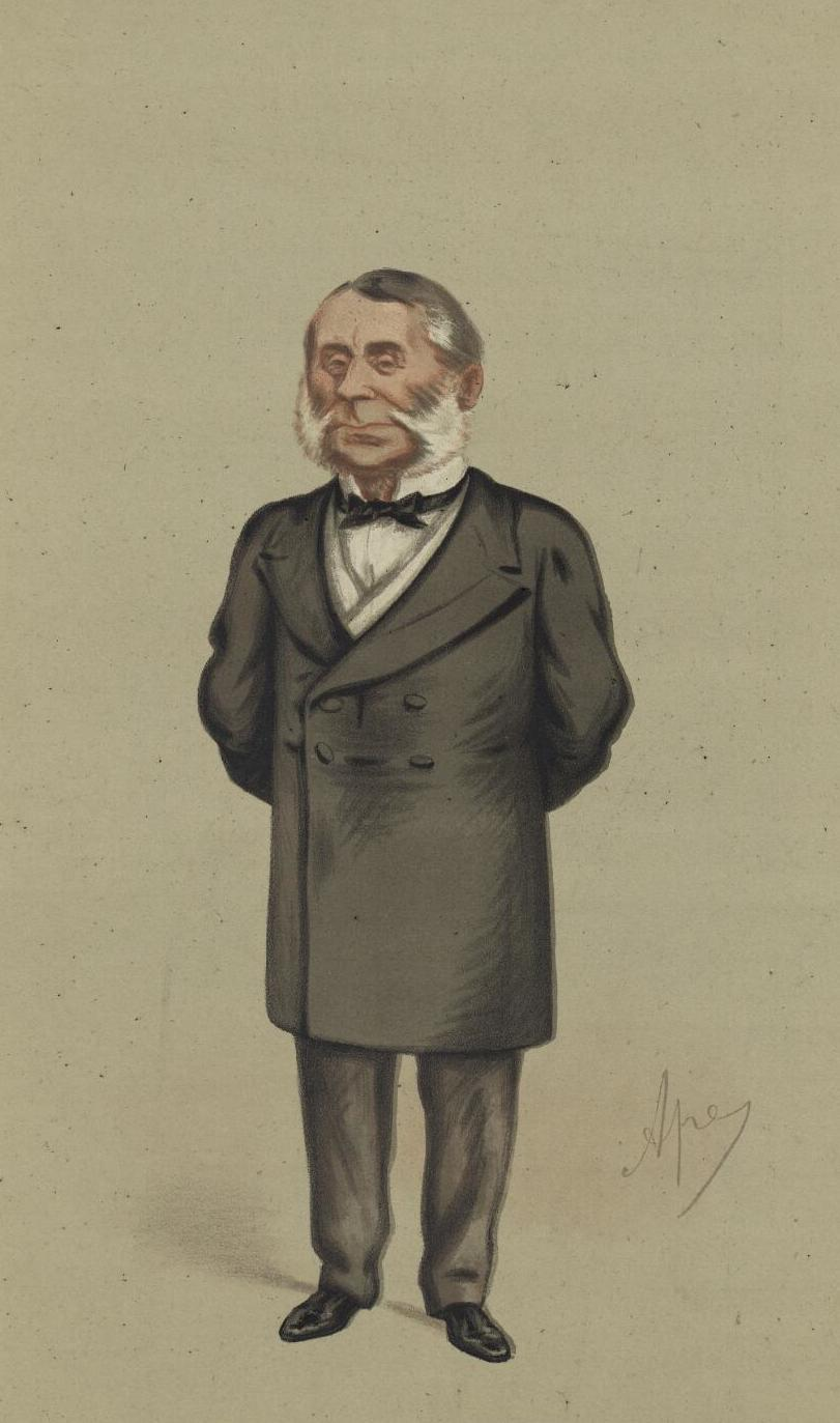 A portrait from the Welsh Portrait Collection at the National Library of Wales. Depicted person: Edward Watkin – English MP and railway entrepreneur